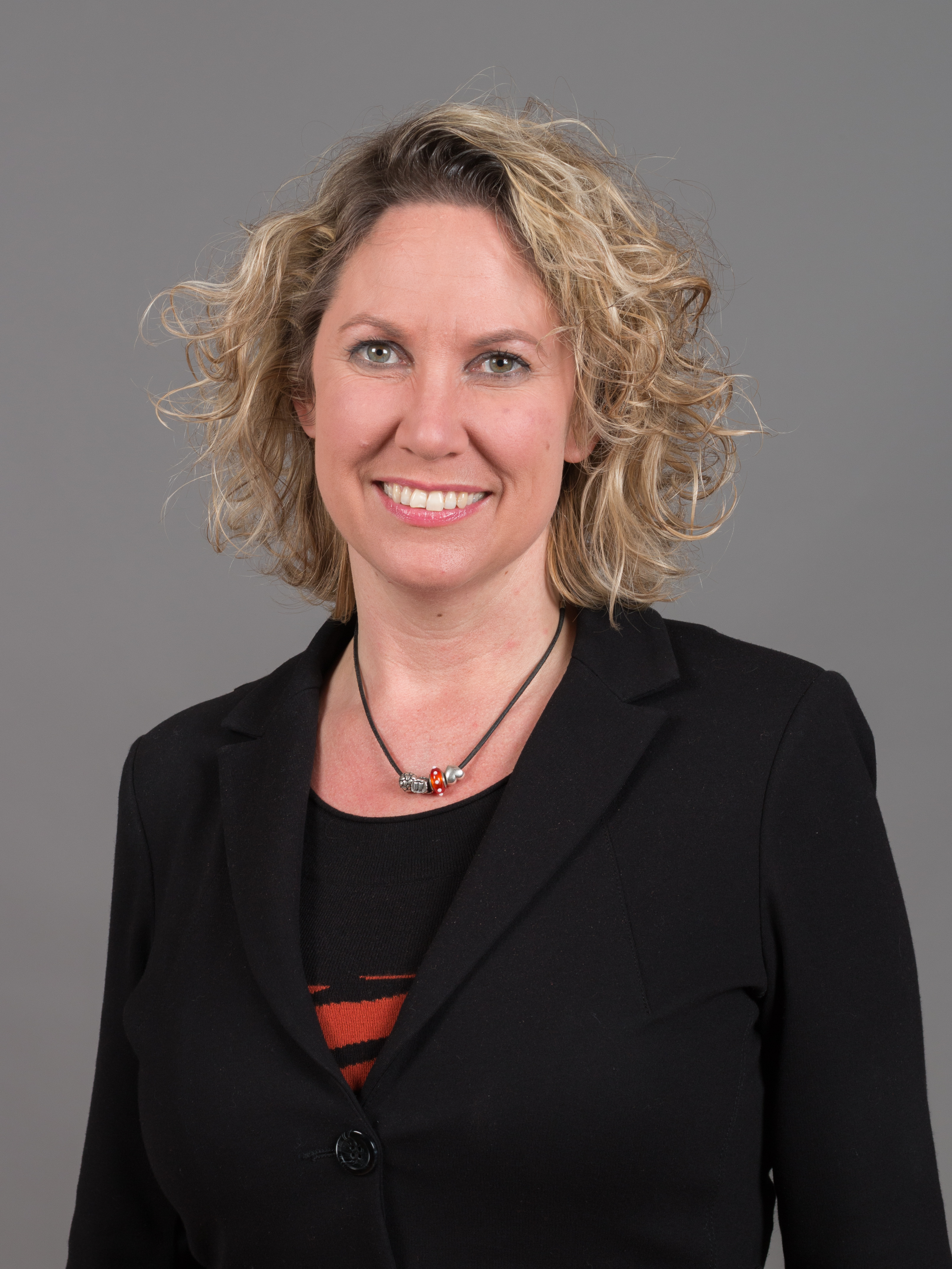 Bettina Dickes, CDU, member of the Landtag of Rhineland-Palatinate